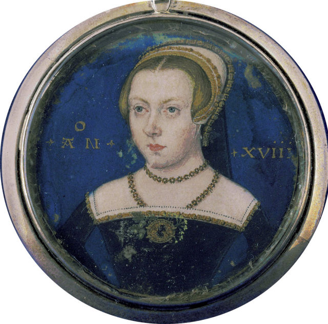 A portrait miniature of an unknown lady, formerly thought to be Lady Jane Grey or Amy Robsart.